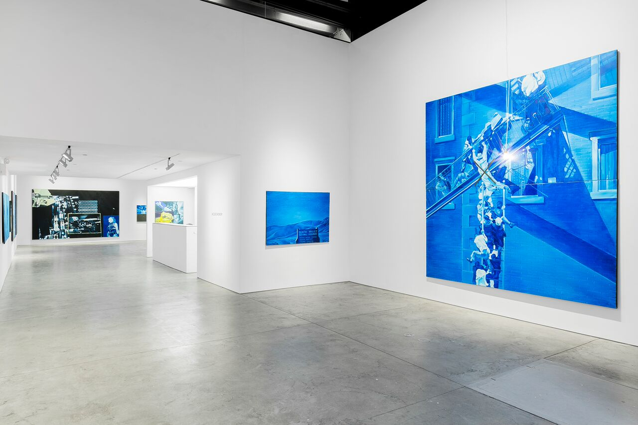 Installation view of "Jacques Monory" at Richard Taittinger Gallery in New York City, NY.